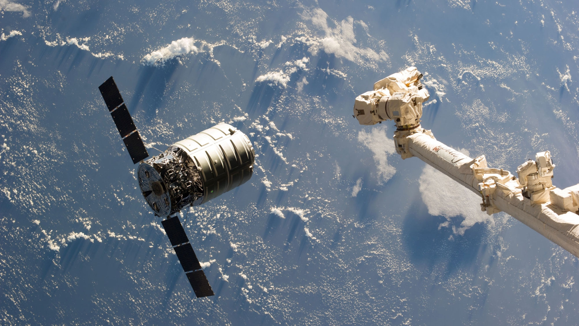 Cygnus 1 approaching the International Space Station.